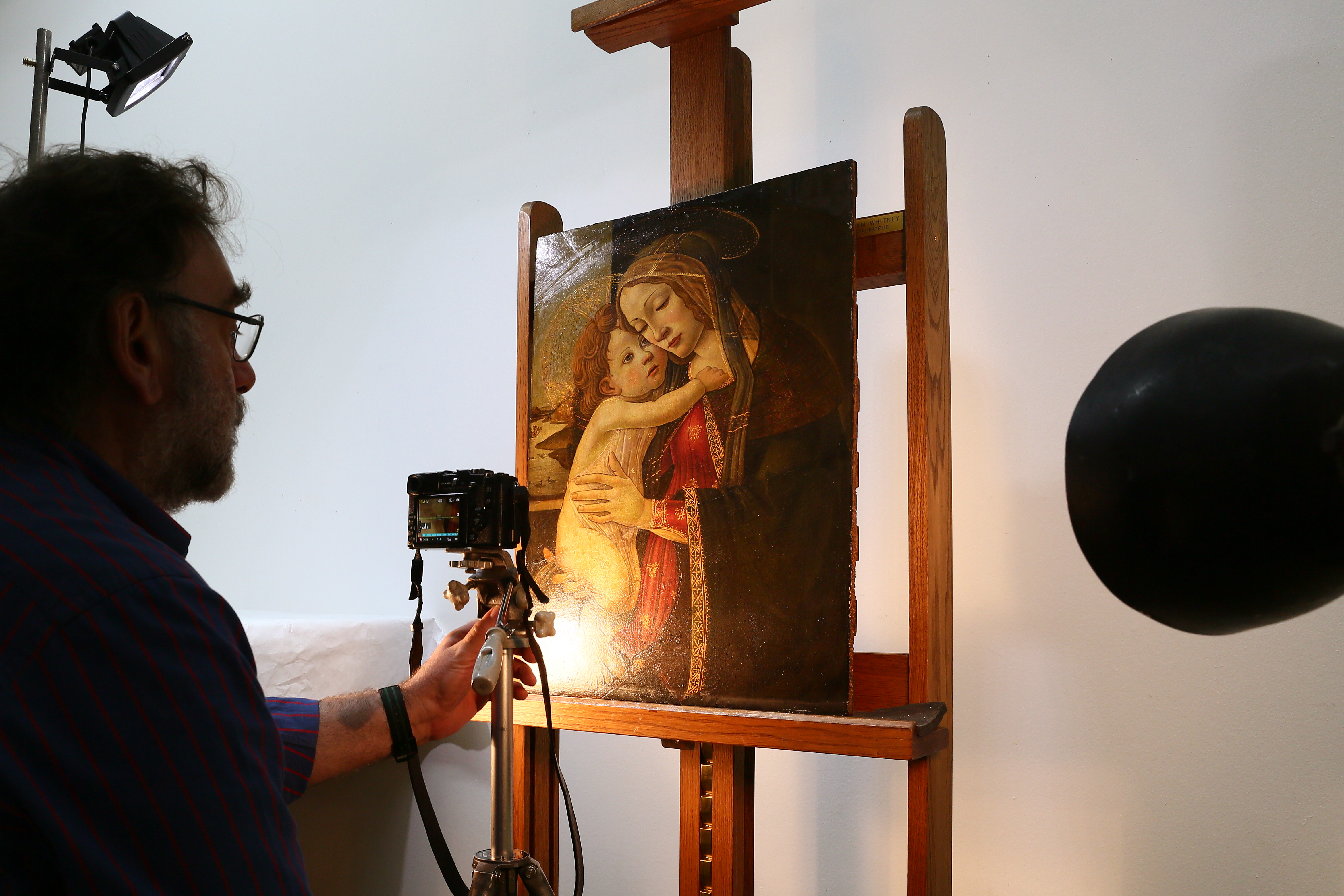 Evaluation of the state of a renaissance painting, in 2015.